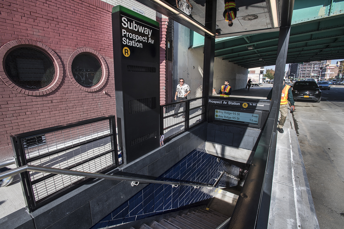 MTA Chairman Joseph Lhota and Managing Director Veronique "Ronnie" Hakim rode the first R train to the Prospect Av station which has reopened after an extensive renovation as p art of the Enhanced Station Initiative (ESI) on Thu., November 2, 2017. Photo: Metropolitan Transportation Authority / Patrick Cashin